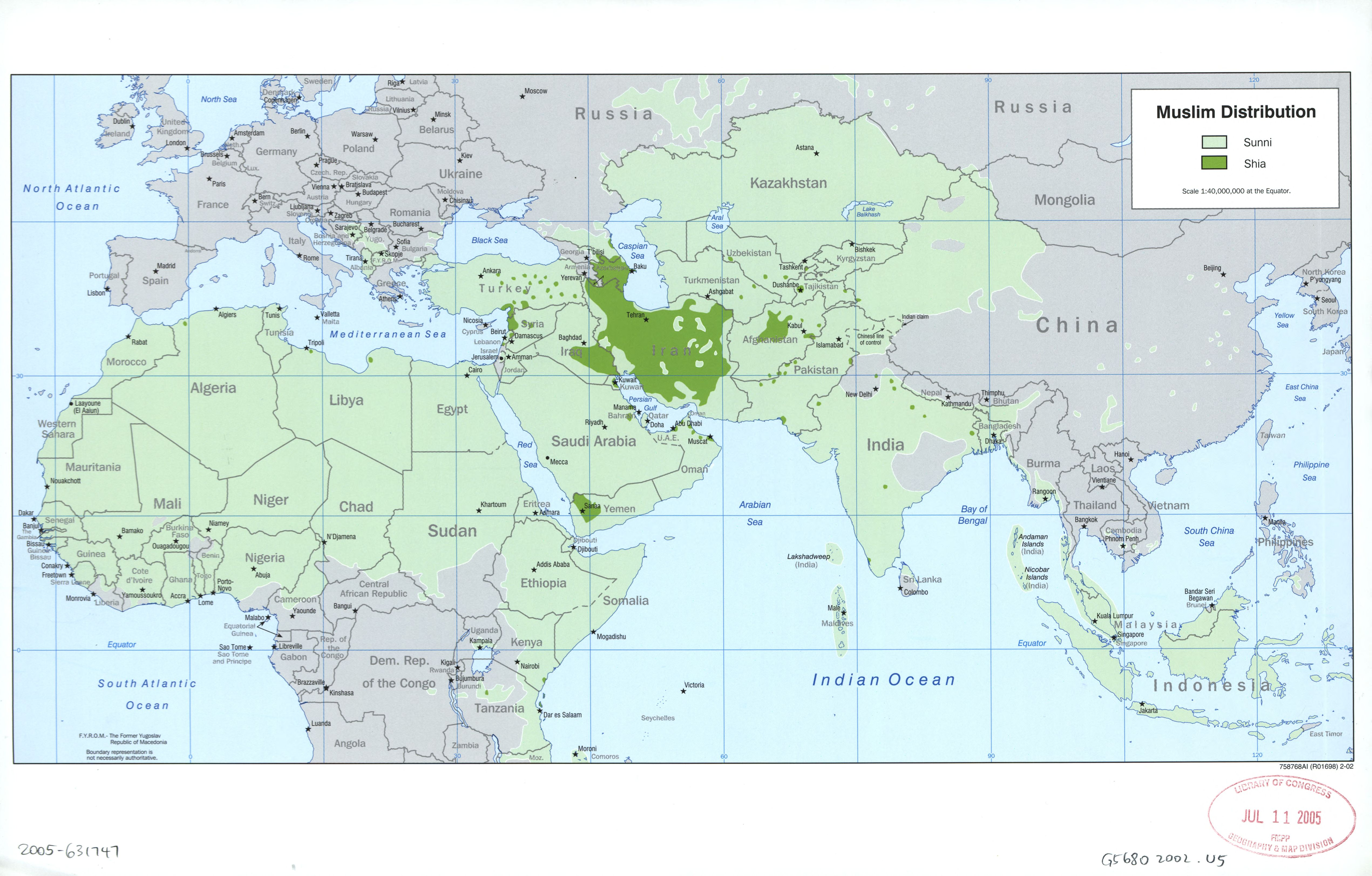 Shows Sunni and Shia sect regions. "758768AI (R01698) 2-02." Includes note. Available also through the Library of Congress Web site as a raster image.